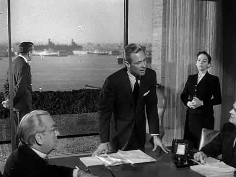 Screenshot of William Holden from the trailer for the film Sabrina (1954 film)